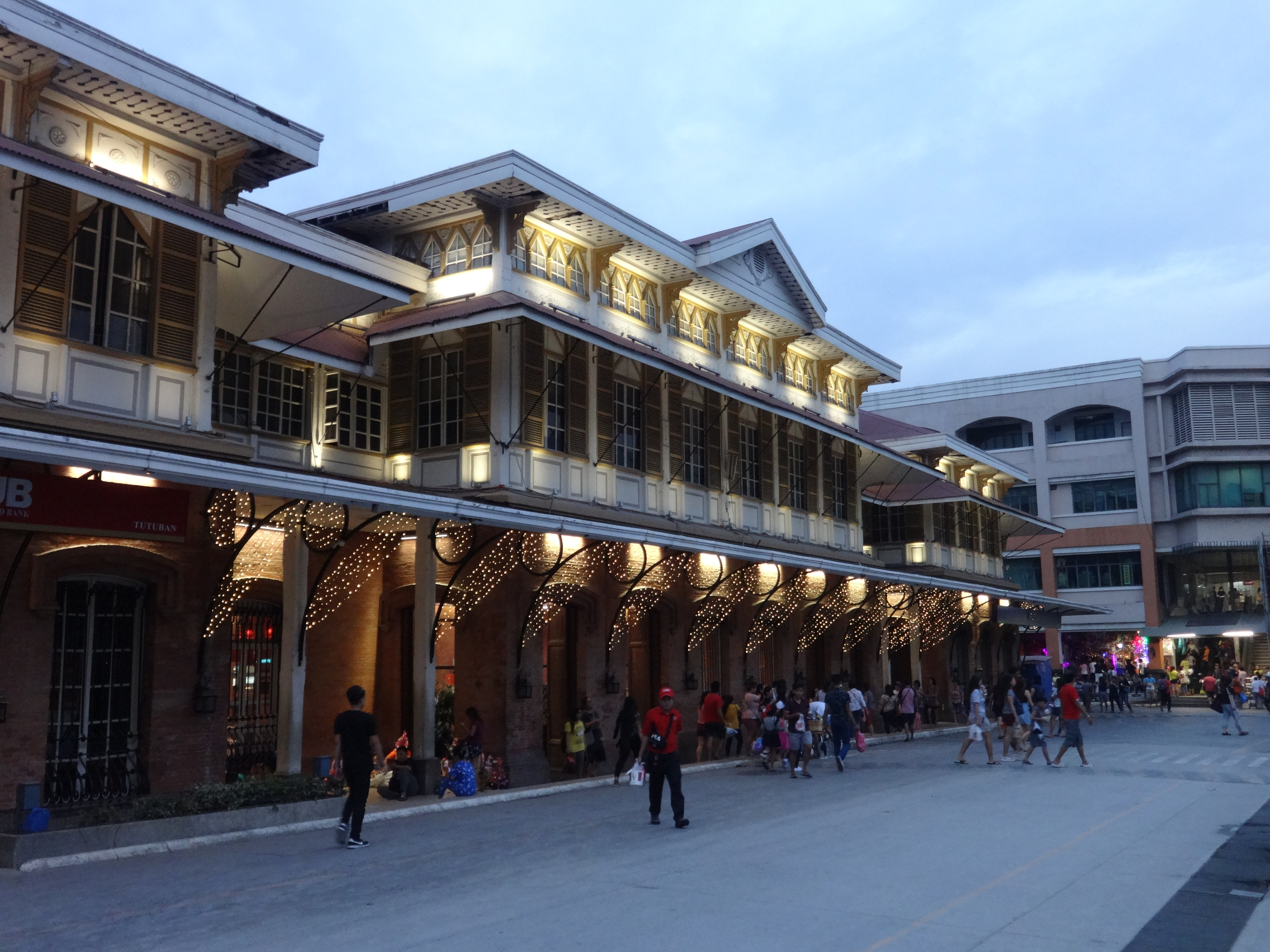 Tutuban Center in Divisoria, Tondo, Manila